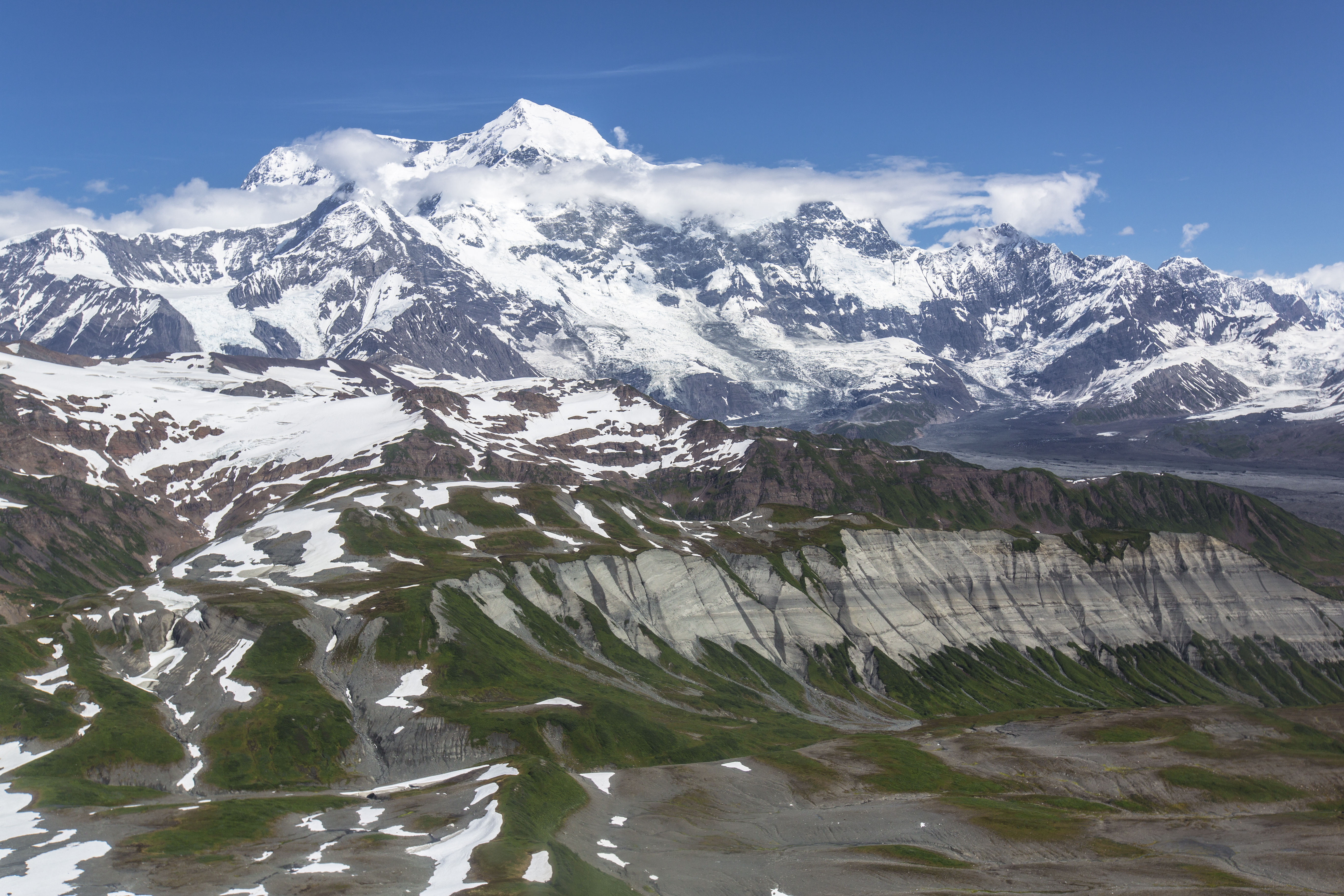 NPS / Jacob W. Frank Flight paths